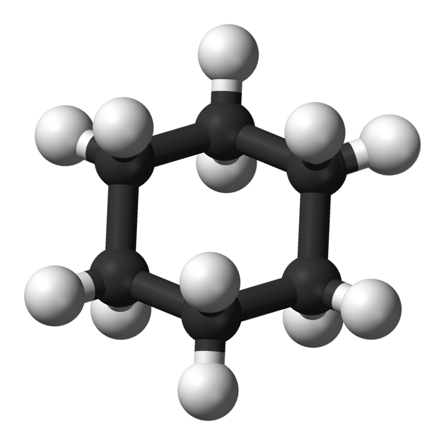 Cyclohexane molecule model